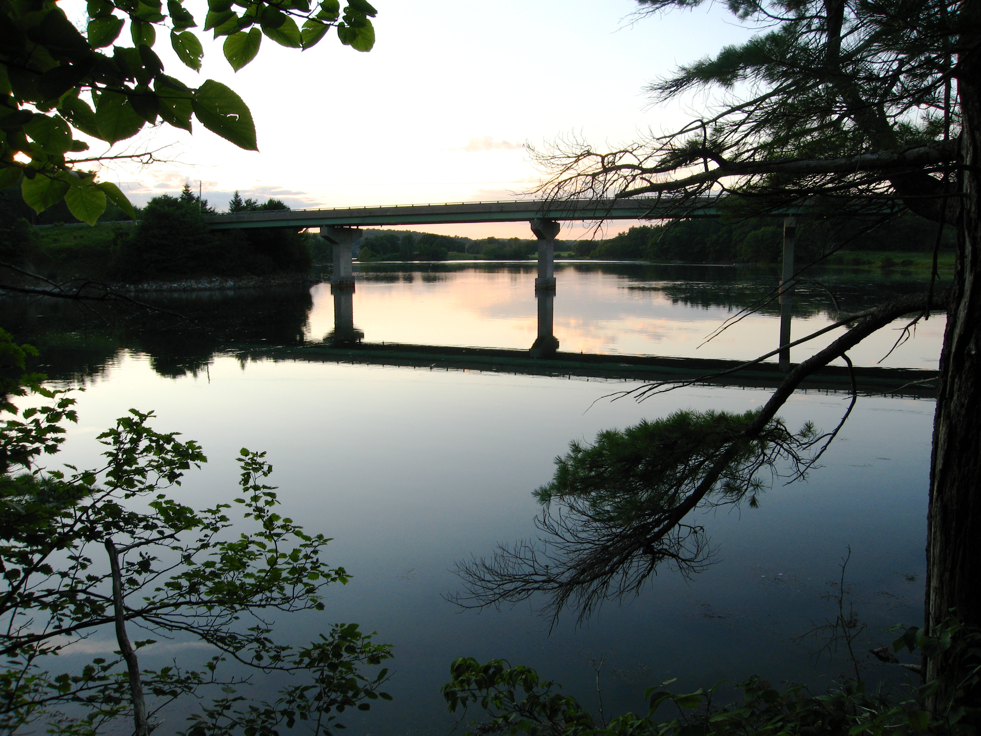 Sunset over the Damariscotta River, as viewed from the Whaleback Shell Midden State Historic Site in Maineen.